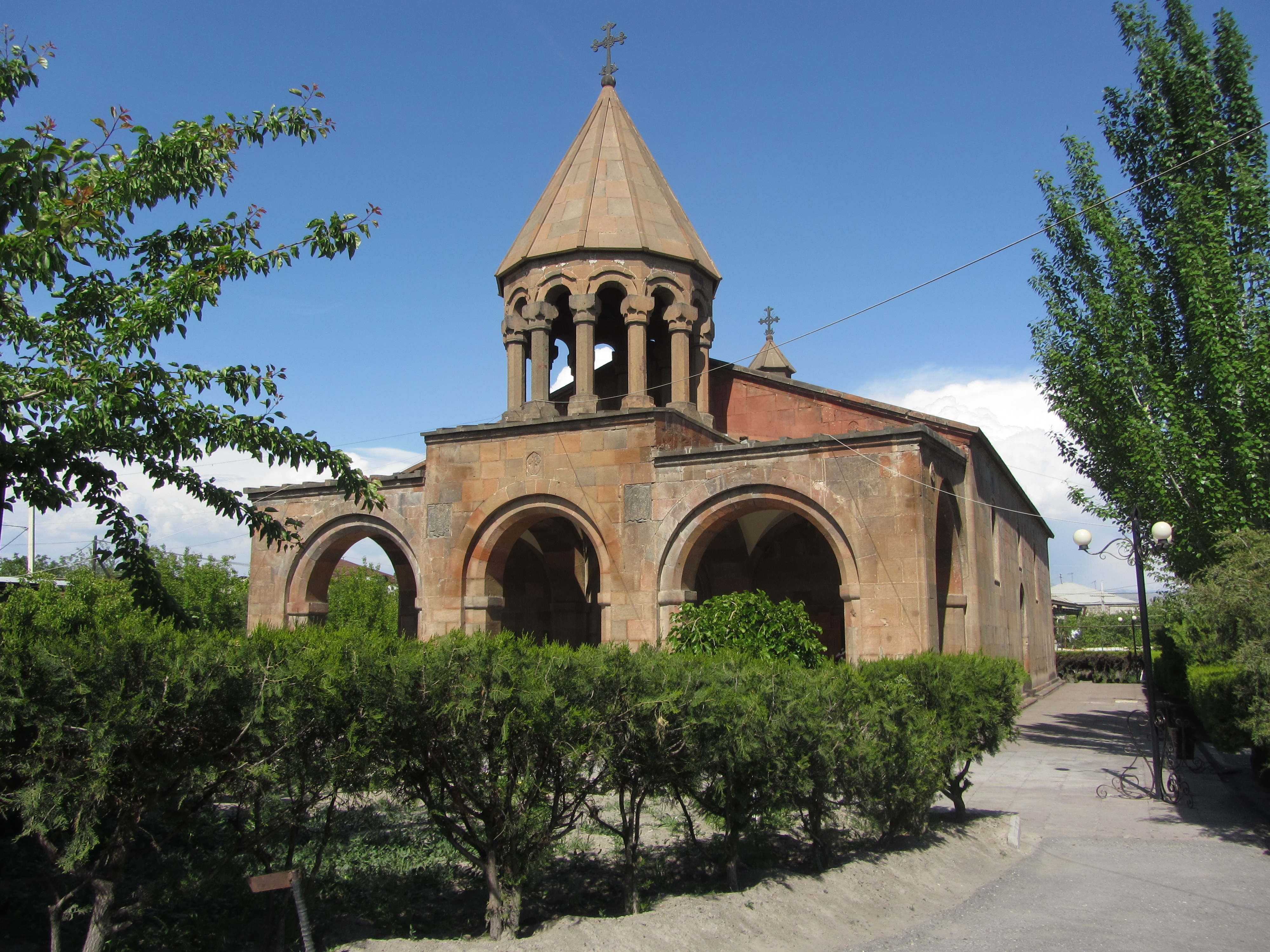 Surb Gevorg (Tsiranavor) Church, Noragavit, 17c.